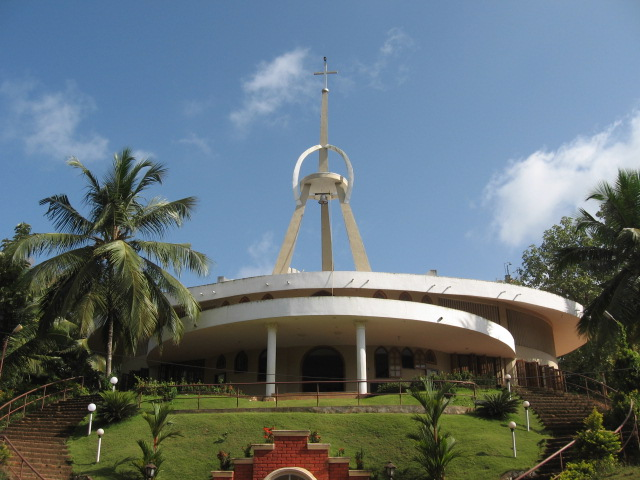 Front Elevation of St.Xavier's Church, Peyad, Trivandrum, India